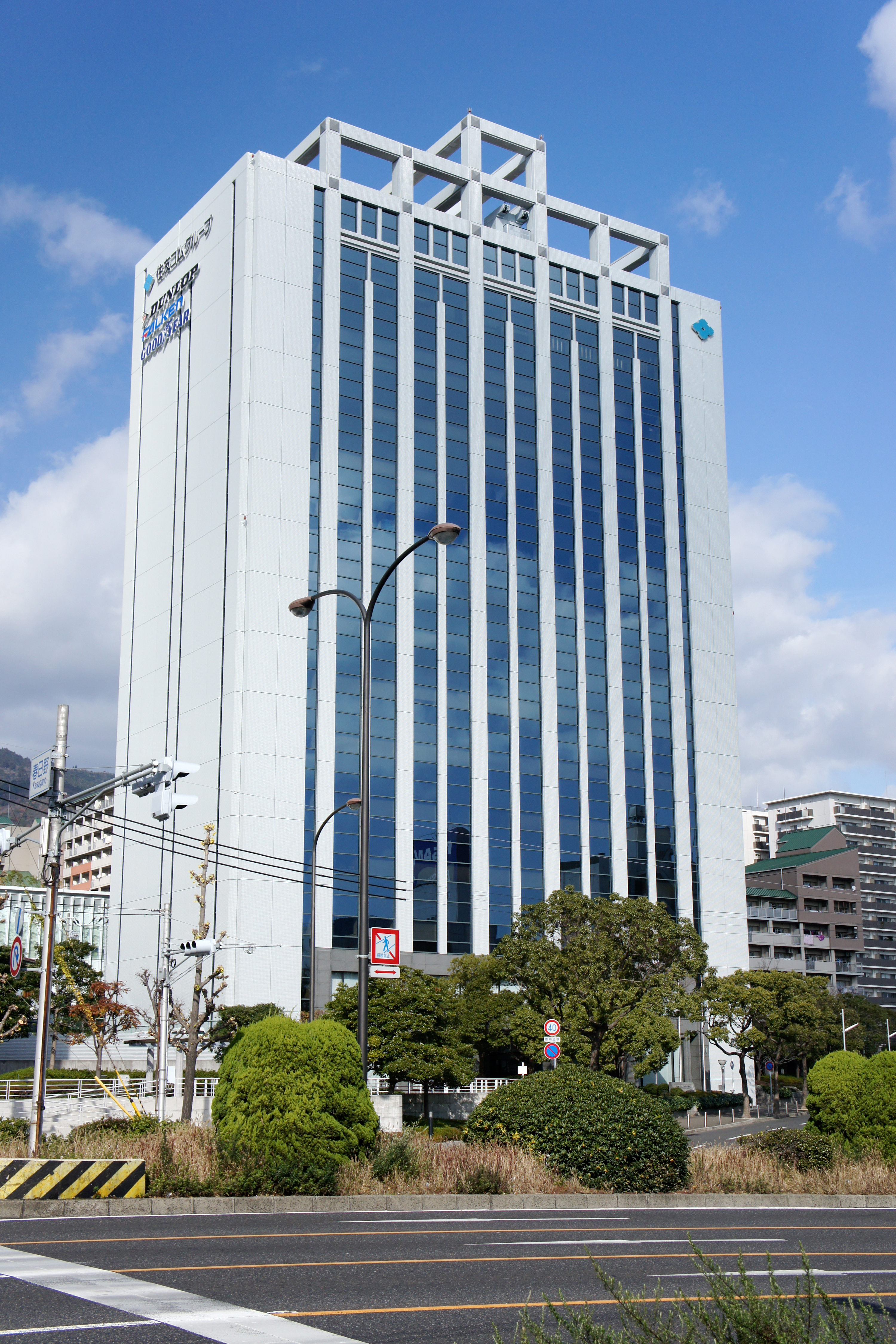 Sumitomo Rubber Industries, Ltd. headquarters building in Kobe, Hyogo prefecture, Japan